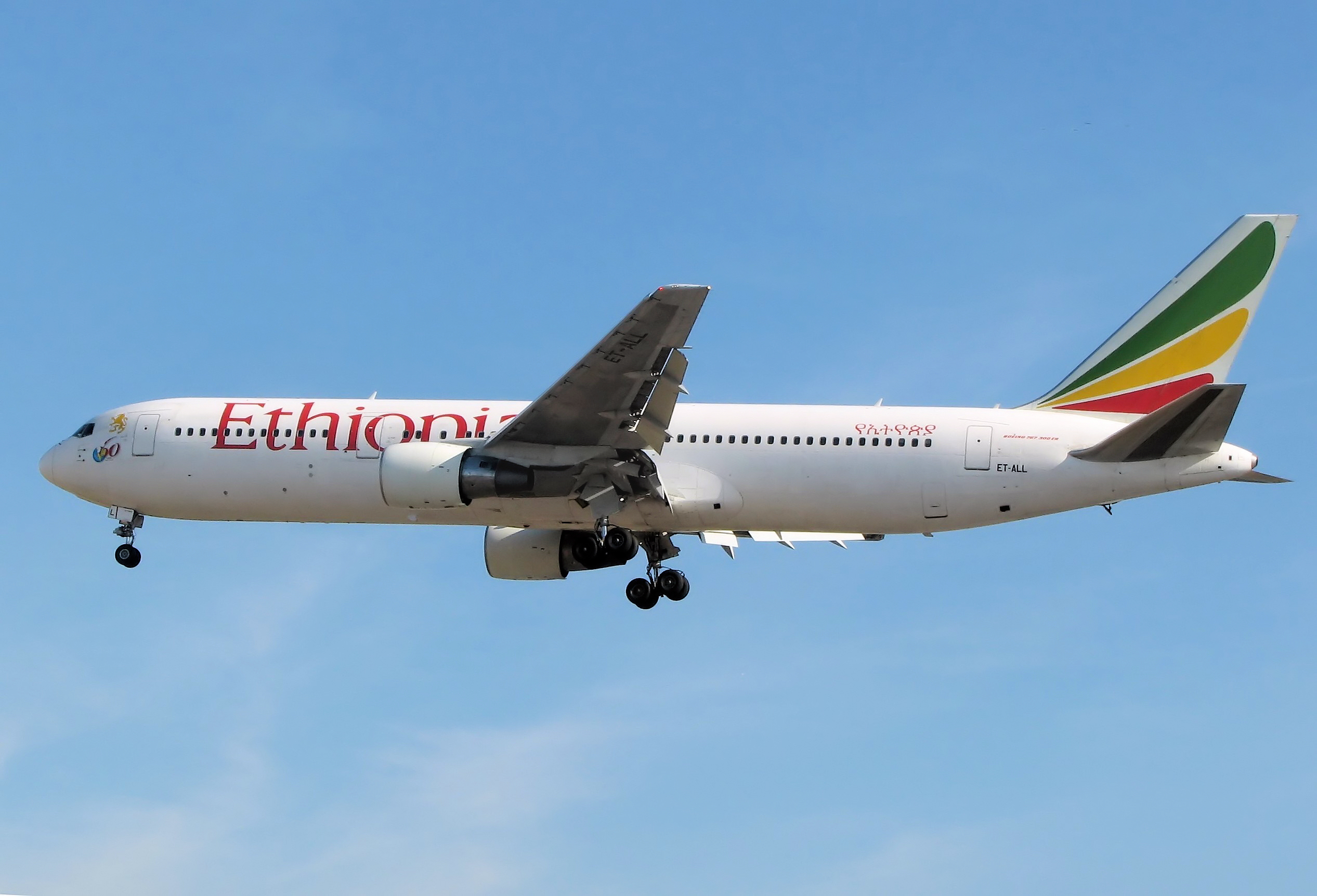 Ethiopian Airlines Boeing 767-300ER (ET-ALL) lands at London Heathrow Airport, England.